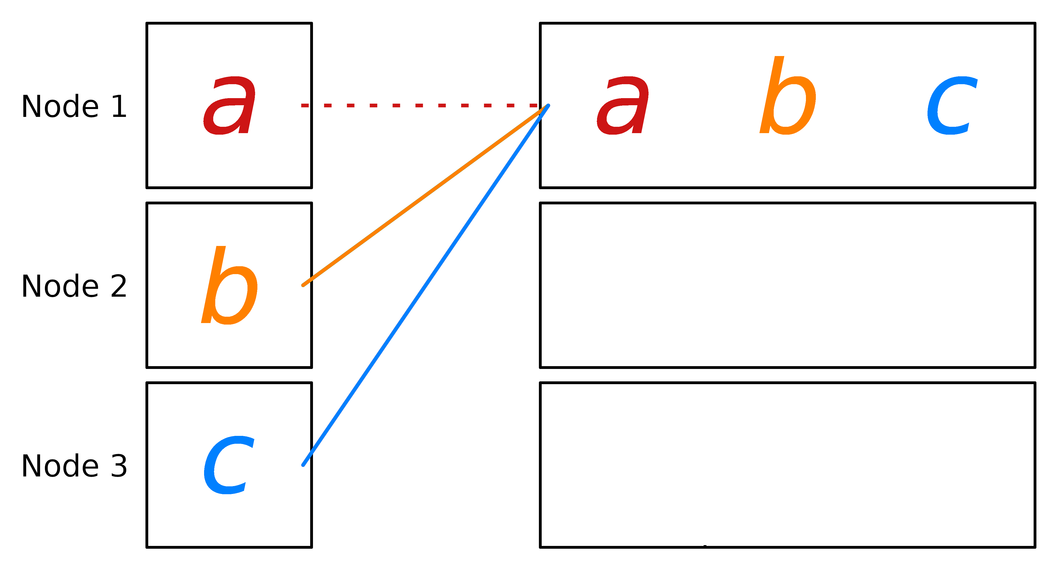 One node collects information from all other nodes.